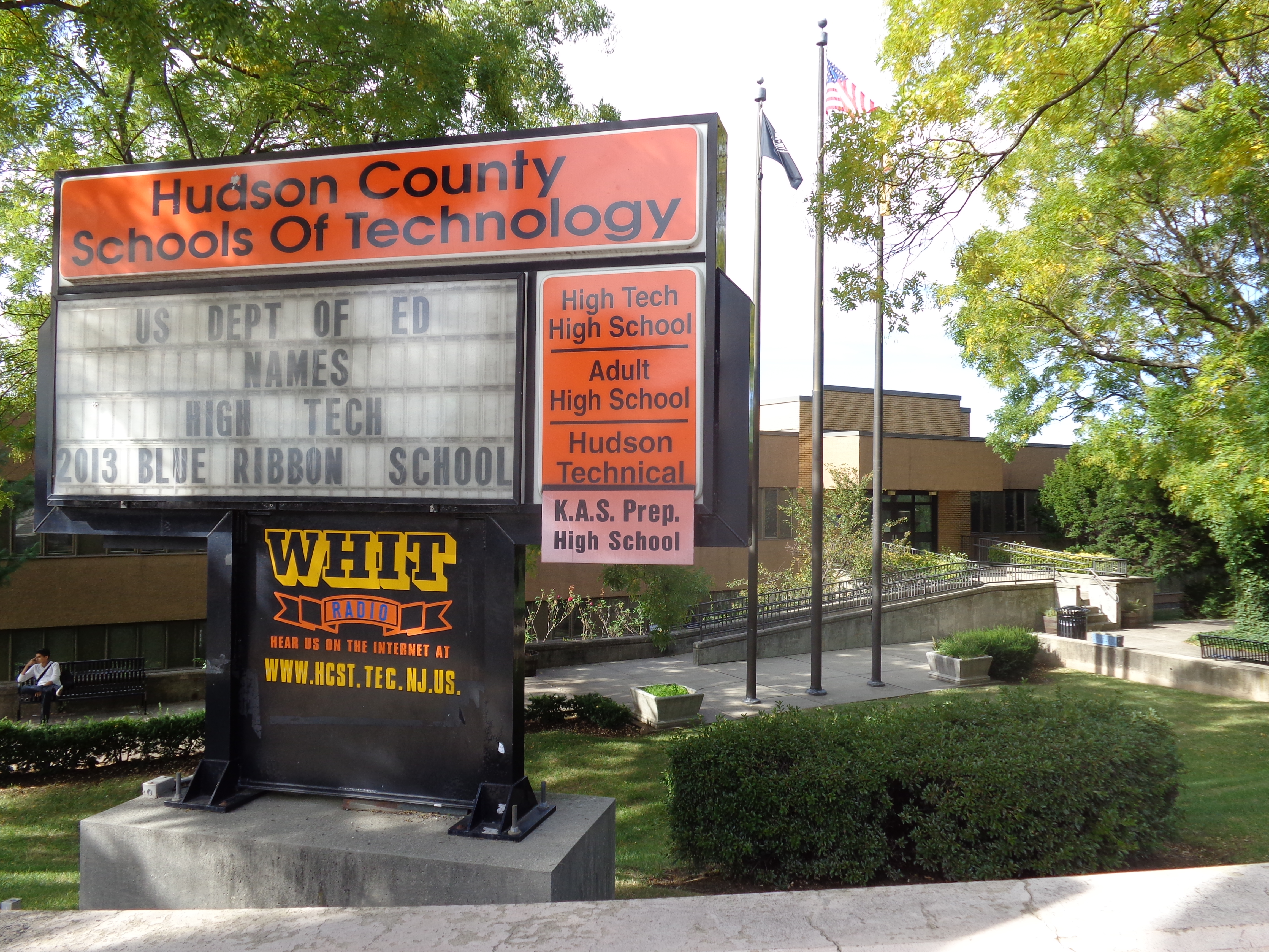 Hudson County Schools of Technology entrance Tonnelle Ave North Bergen